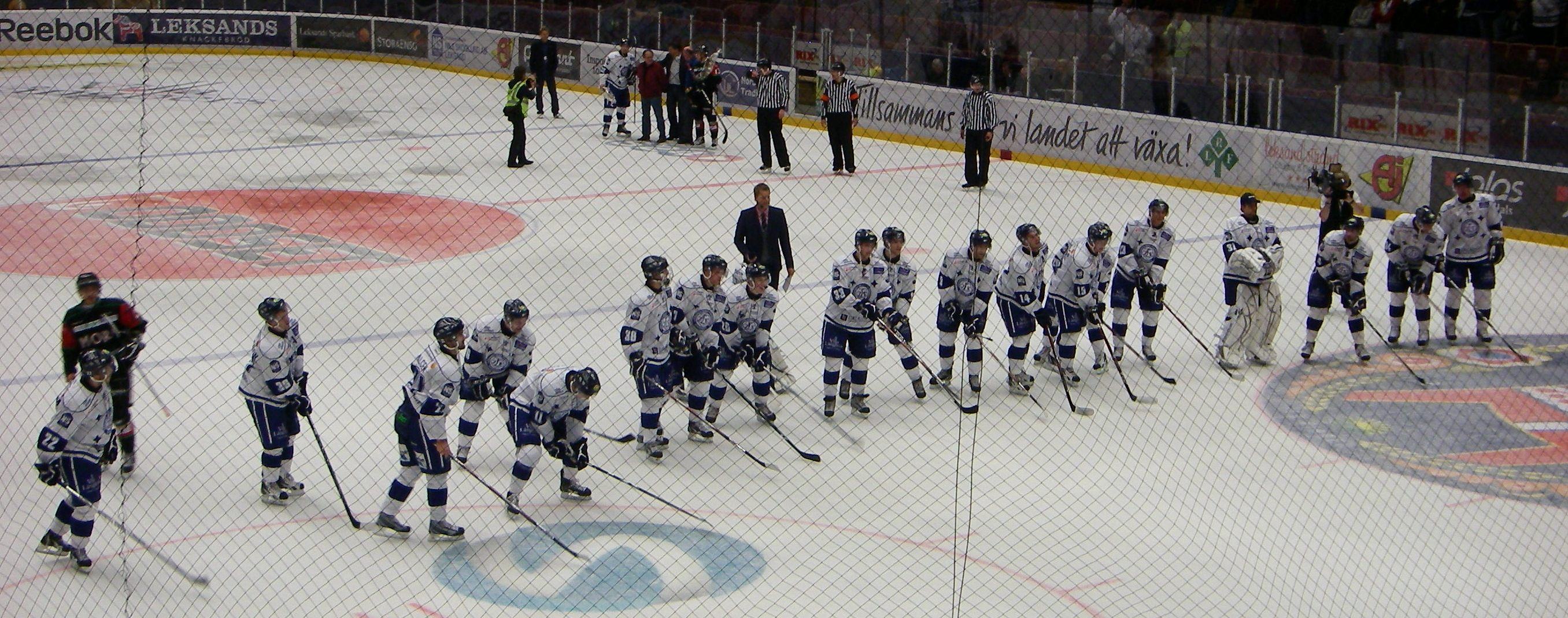 Leksands IF ice hockey team thanks the supporters following the Hockeyallsvenskan game Leksands IF-Mora IK (7-1) in Tegera Arena.